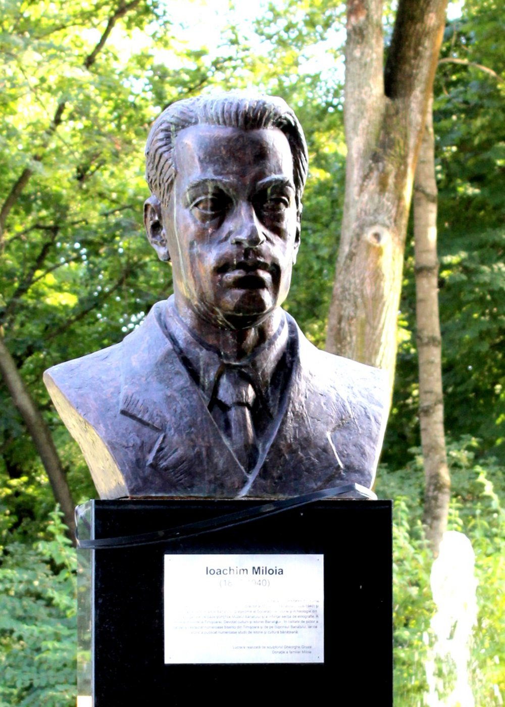 The bust of Ioachim Miloia (1897-1940) by Gheorghe Groza (1899–1930), Central Park, Timisoara, Romania